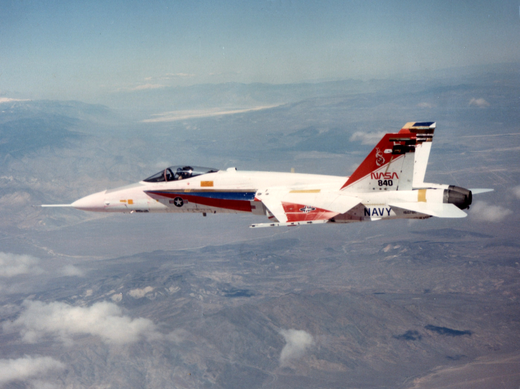 A McDonnell Douglas F/A-18A-2-MC Hornet (BuNo 160780) in flight. This aircraft was transferred to NASA as "840", U.S. civil registration N840NA, in 1985. It was used from 1987 to 1996 as a "High Alpha Research Vehicle" (HARV) with thrust-vectoring vanes, research flight control system and forward fuselage strakes.